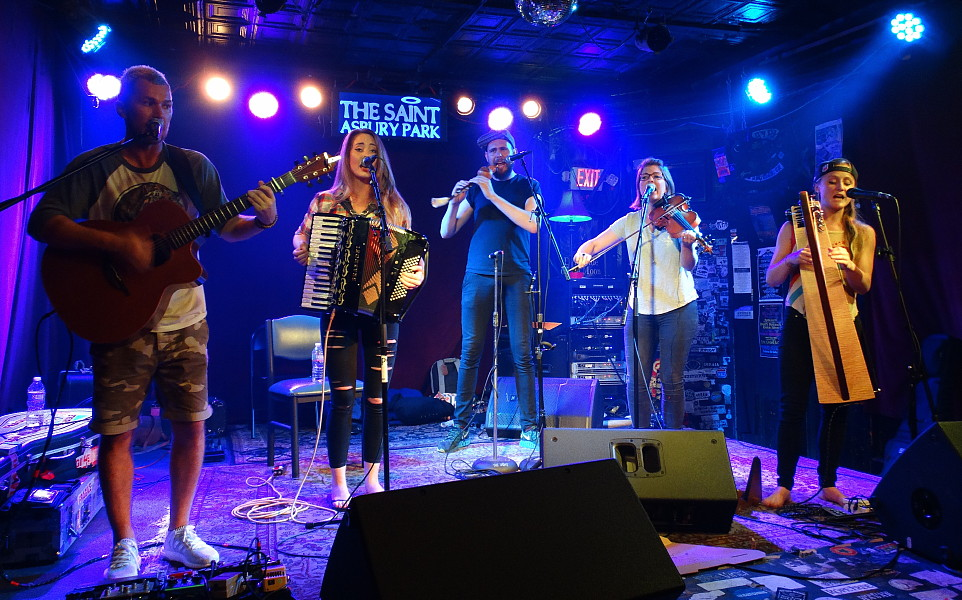 Calan on stage at The Saint in Asbury Park, NJ. Photo by LHCollins 09212017.jpg